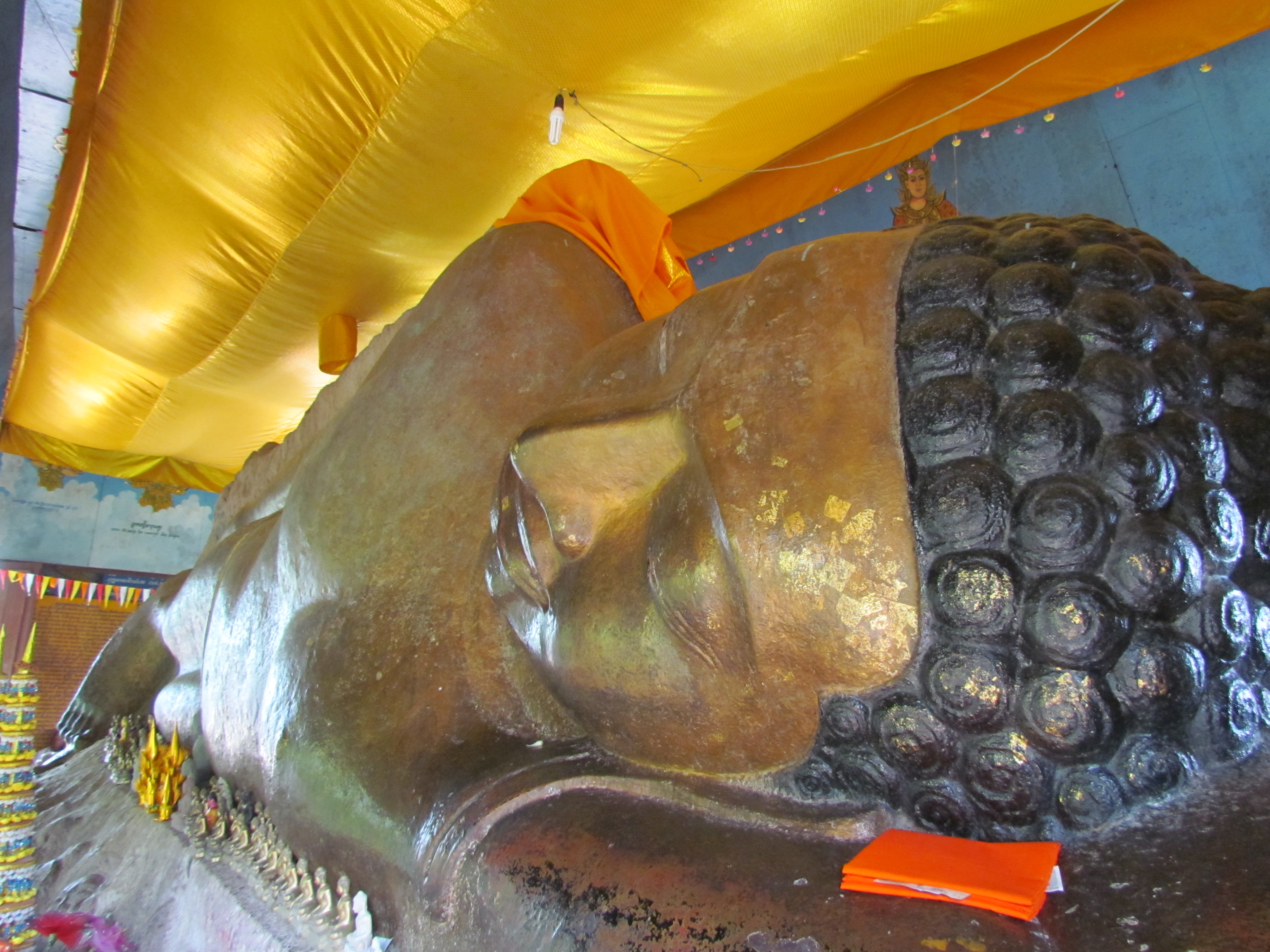 Reclining Budda in Wat Preah Ang Thom